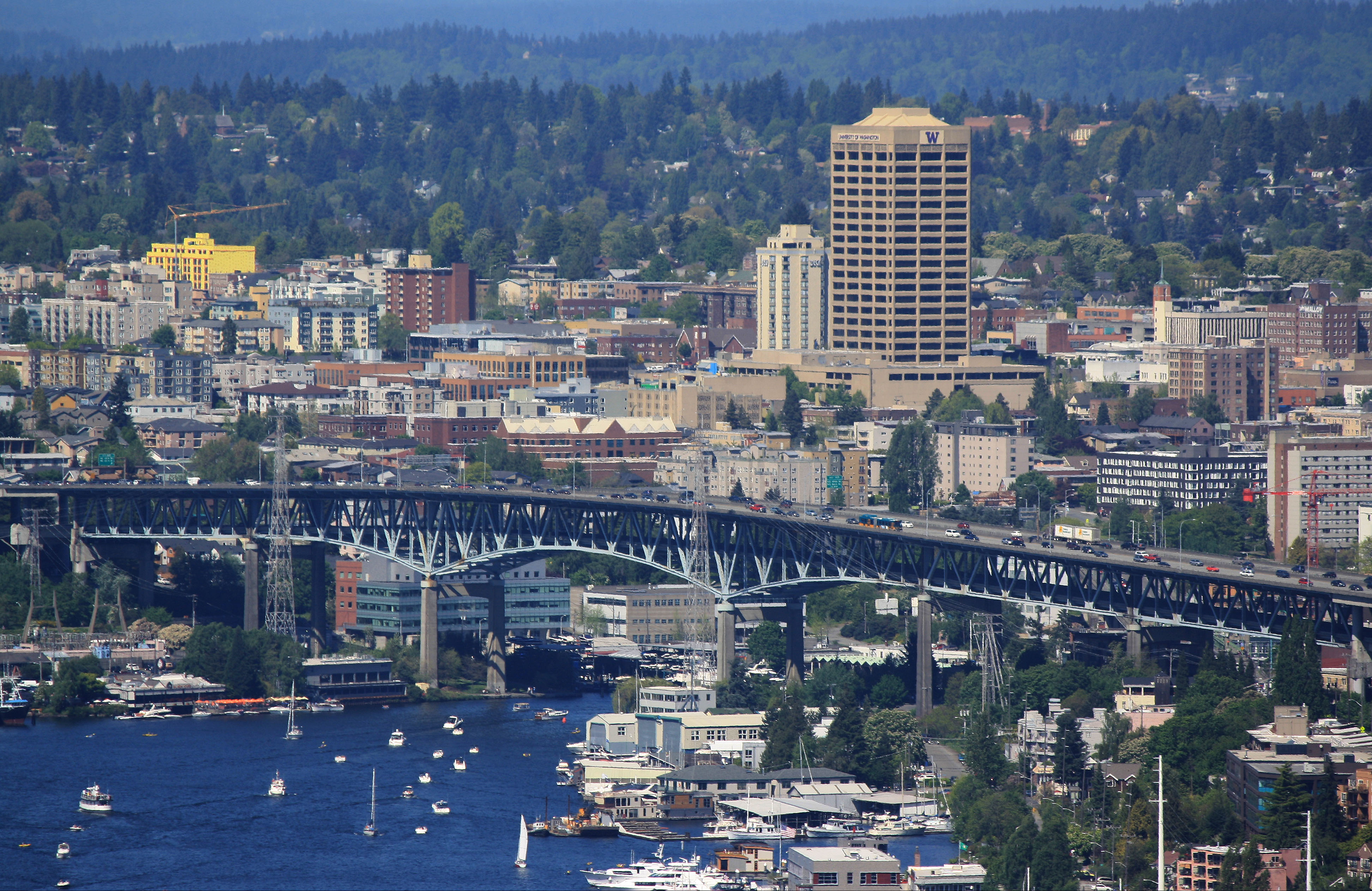 The Ship Canal Bridge, in Seattle, carries Interstate 5 over the Lake Washington Ship Canal. The eastern arm of Lake Union is in the foreground.